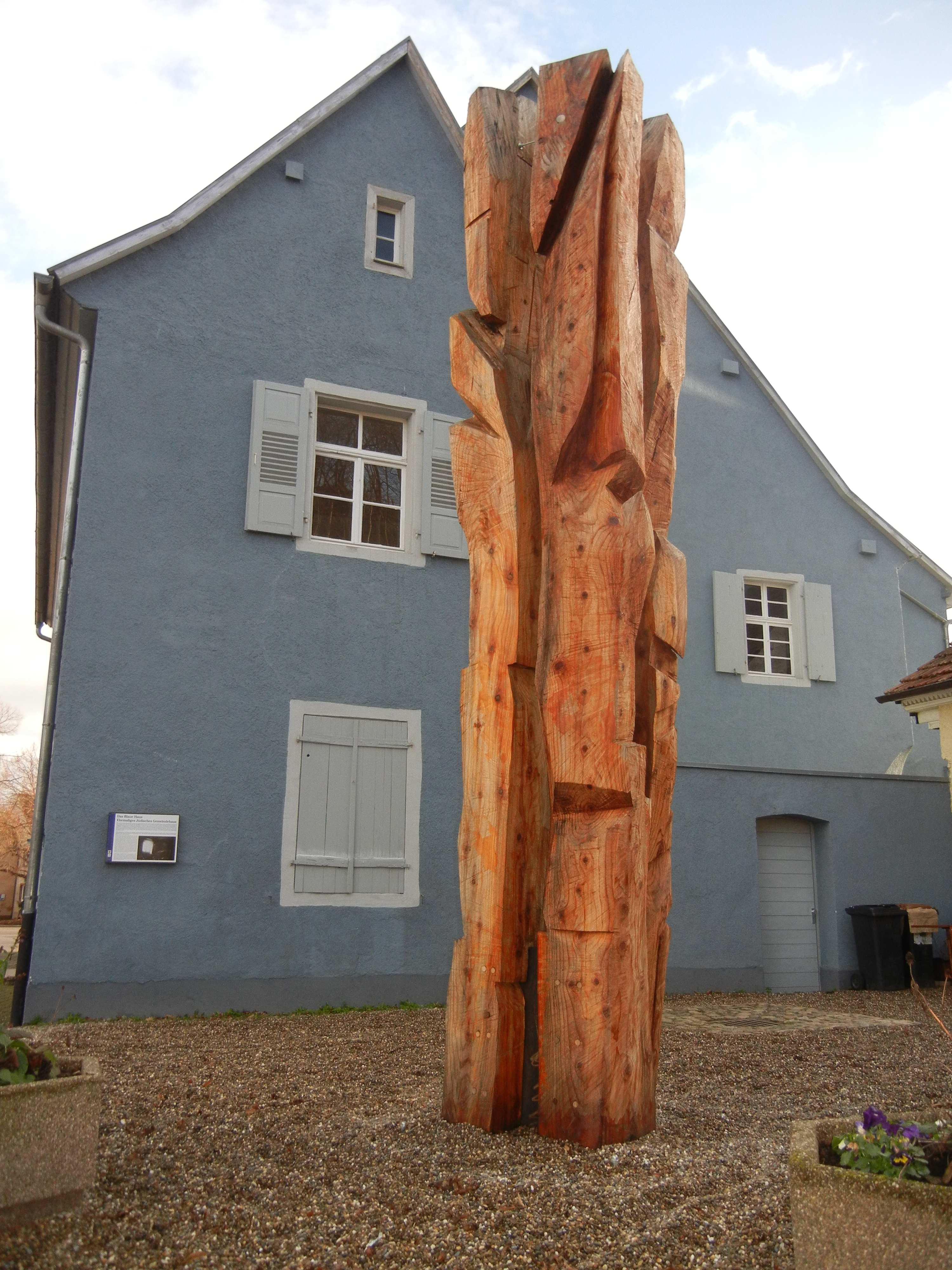 Heike Endemann. 2013. Sculpture for the Blue House, Breisach, Germany.